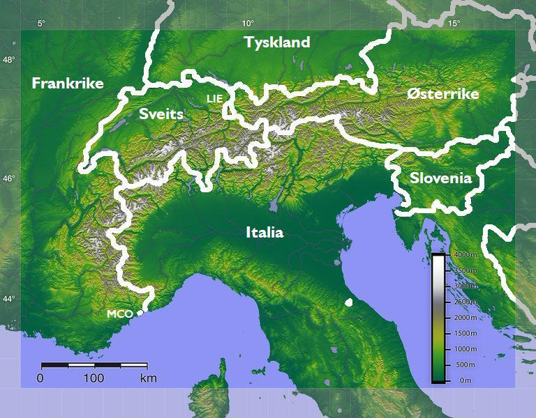 Map of the Alps with national borders added, Norwegian version (for English version, see here)